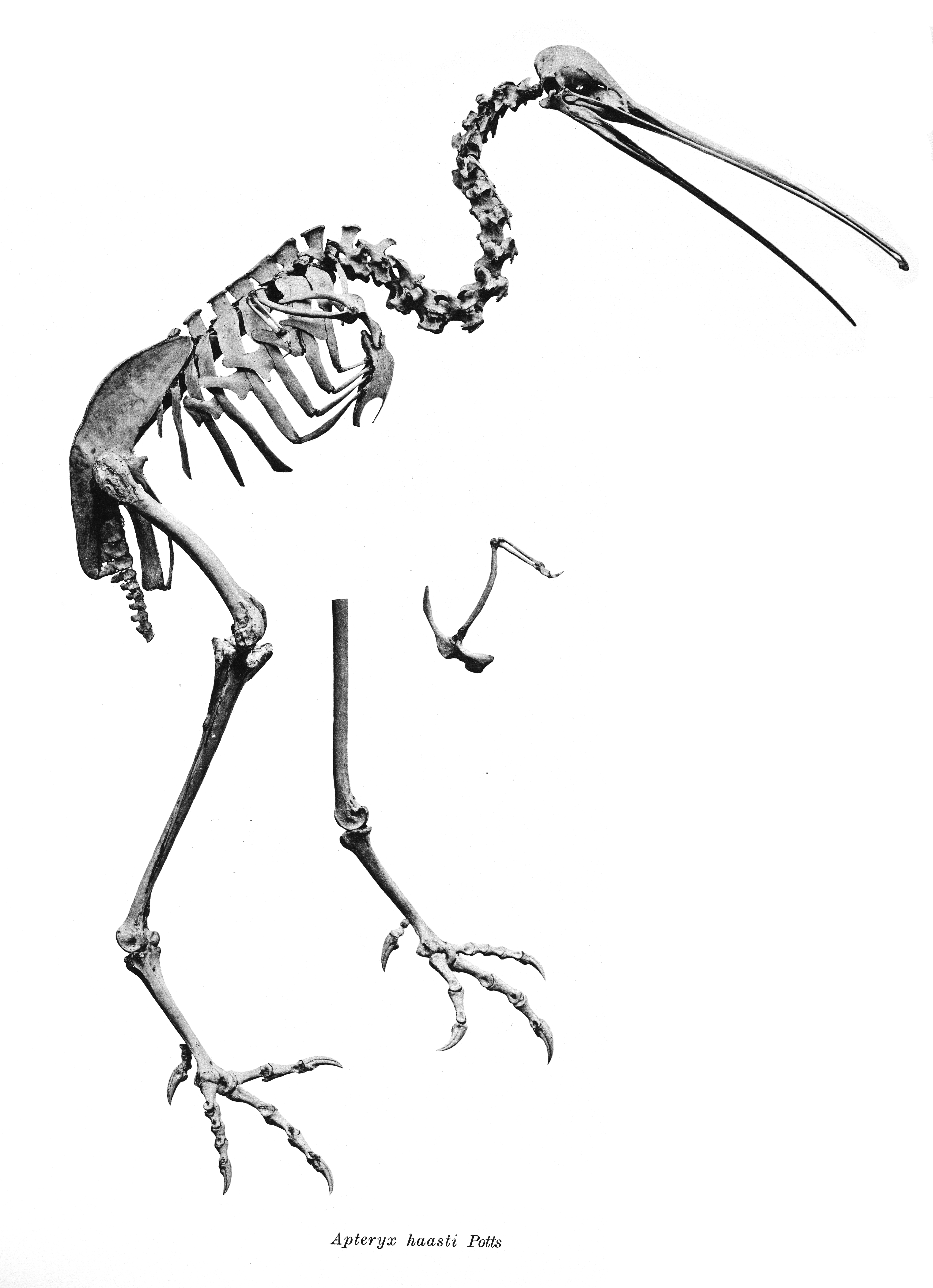 Bird skeletons. Note that the current scientific names need to be checked. Apteryx haasti